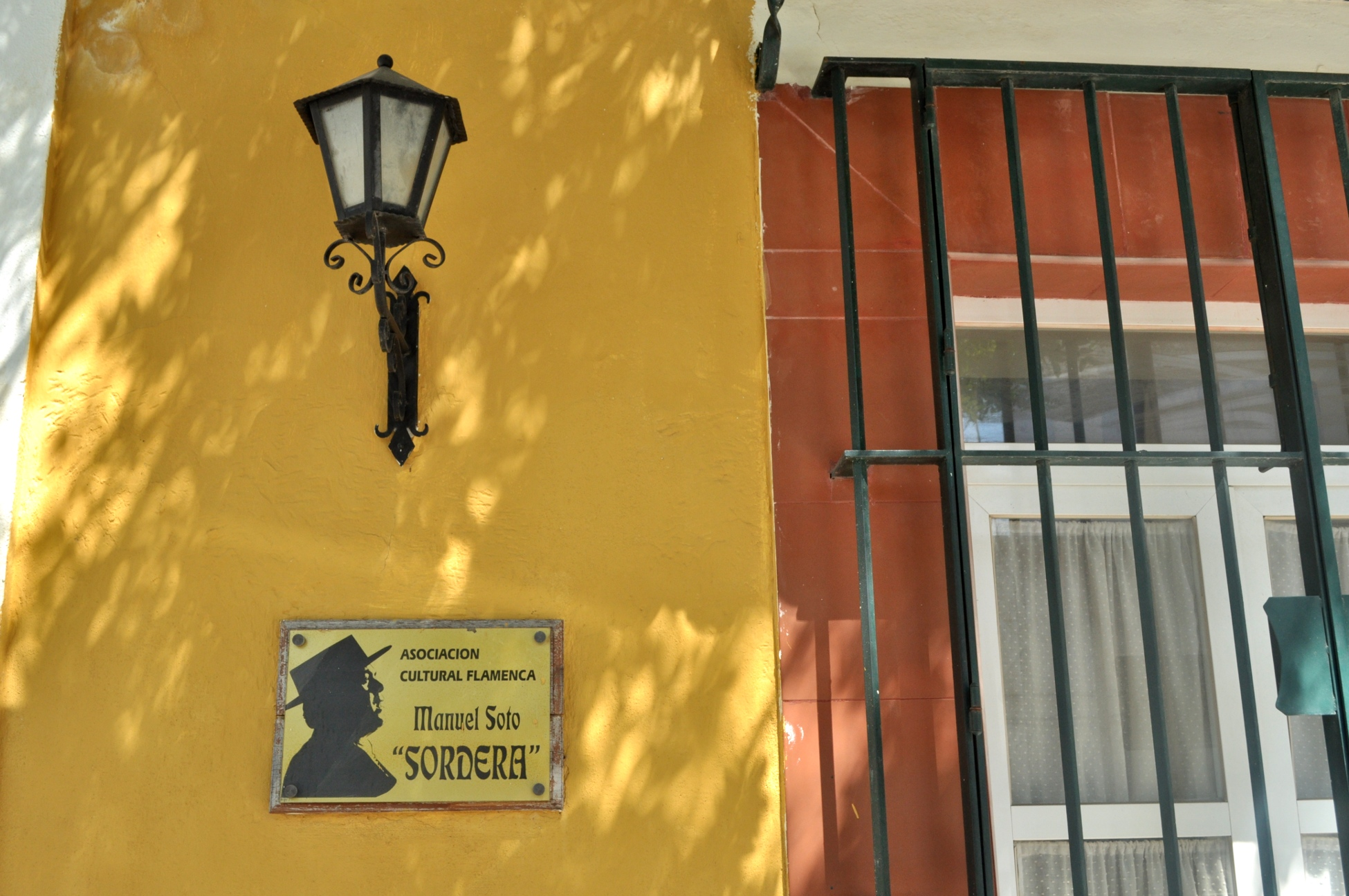 Flamenco Center, Manuel Soto Sordera, Jerez